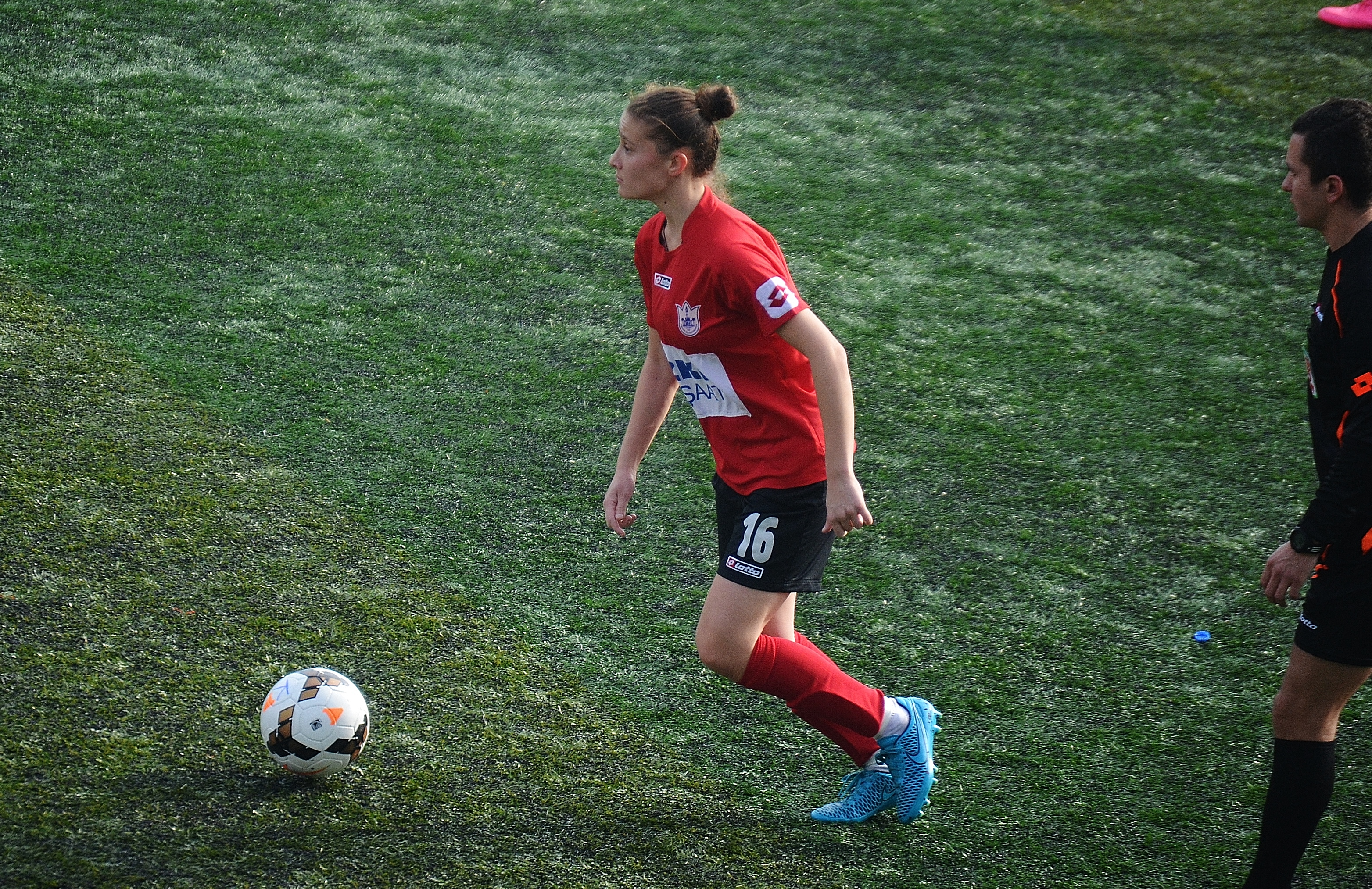 Ebru Topçu playing for Konak belediyespor in the 2015-16 season away match against Kireçburnu Spor